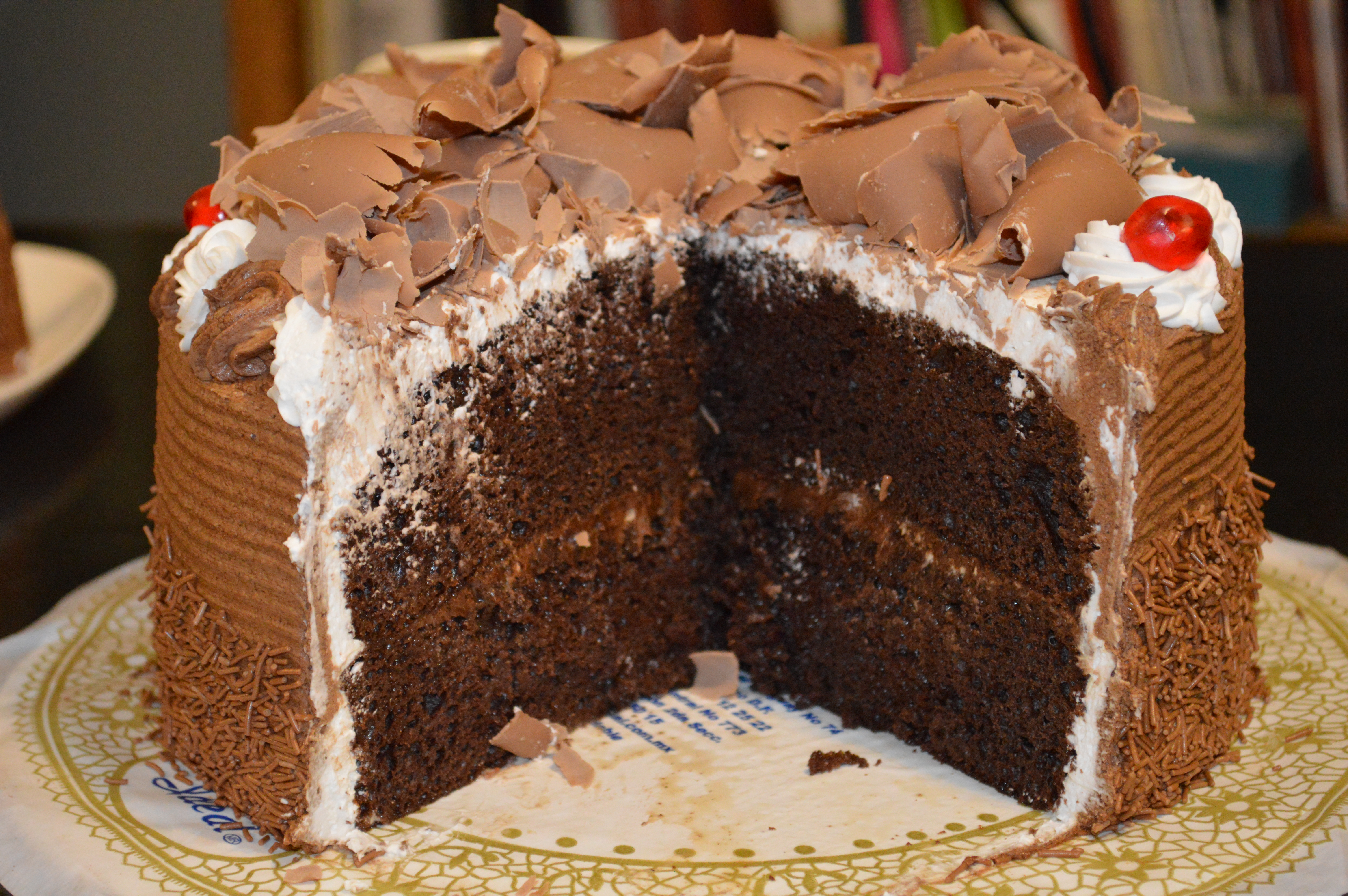 Chocolate truffle cake from Ideal Bakery in the historic center of Mexico City